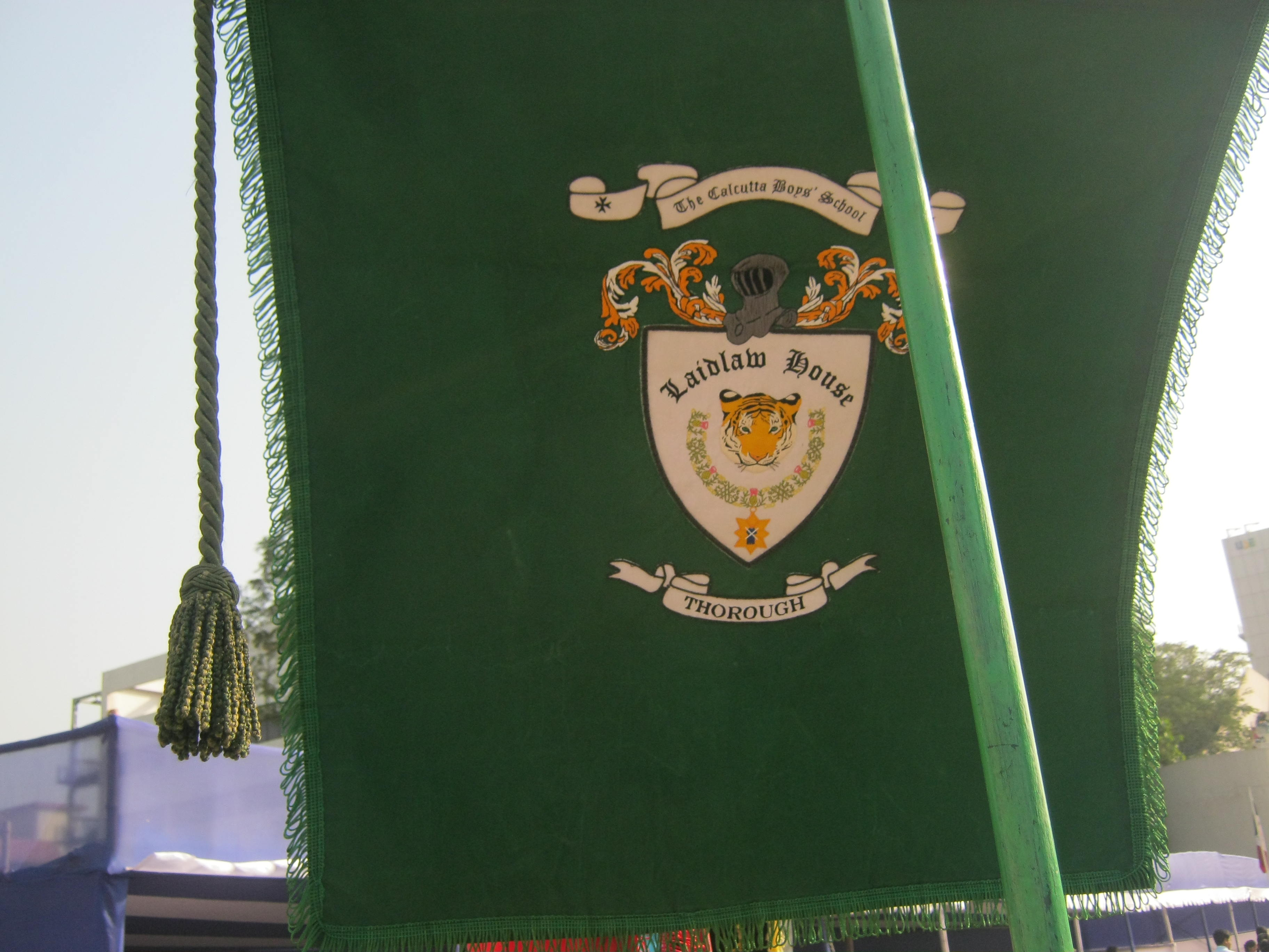 I clicked this photo during the PANORAMA 2014 of CBS.